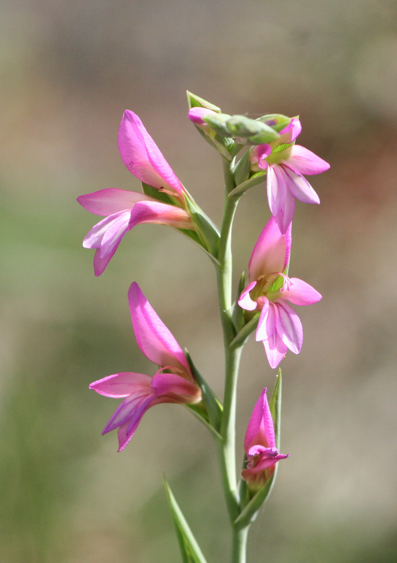 Gladiolus_illyricus